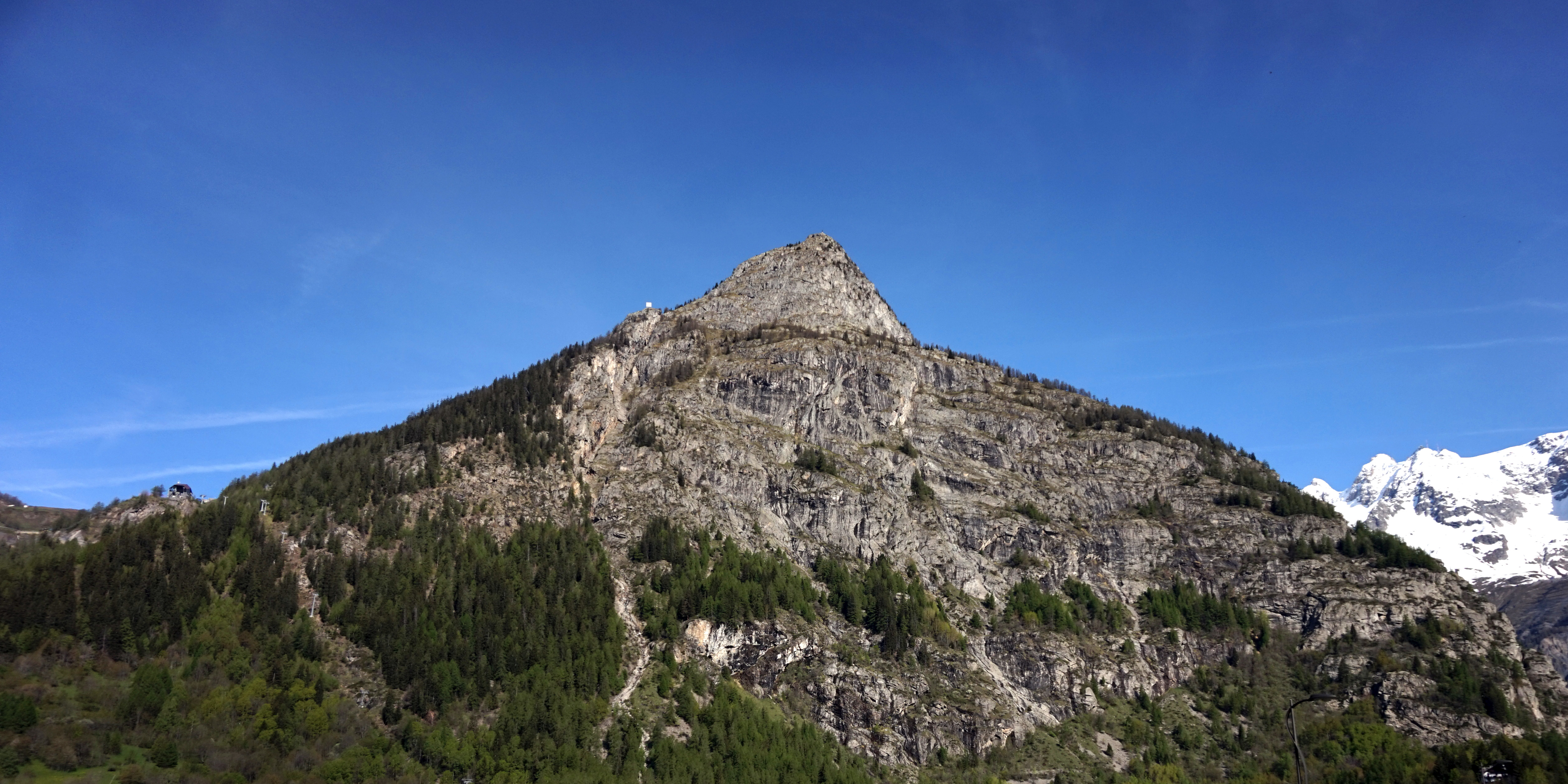 Monte Chétif. View from the road SS26 Dir in Courmayeur, Italy.This photograph was taken with a Sony ILCE-5000